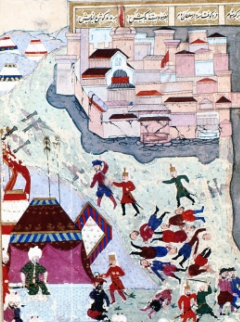 TSM, A3595, folio 122a. Lala Mustafa Pasha’s execution of Venetian commanders